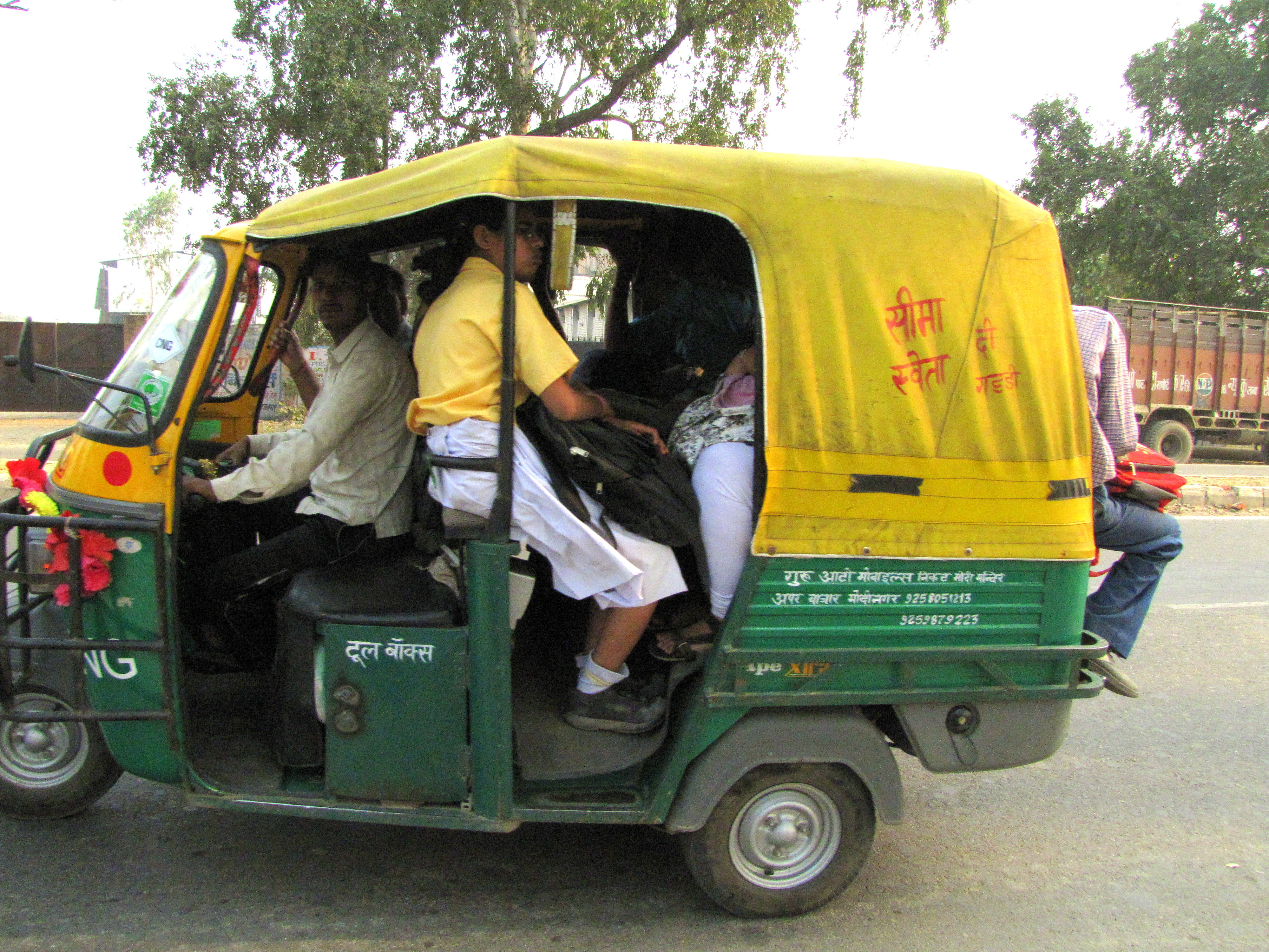 Little School Bus